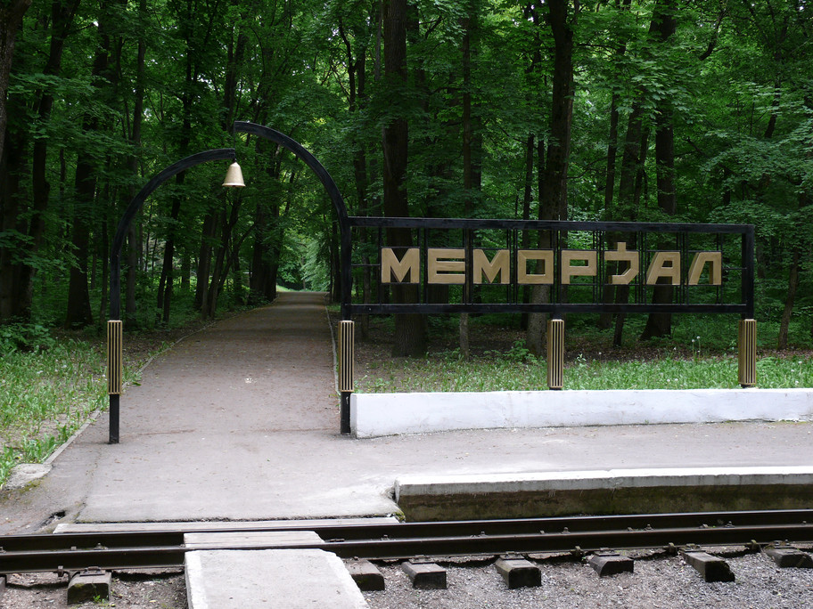 Kharkov children's railway